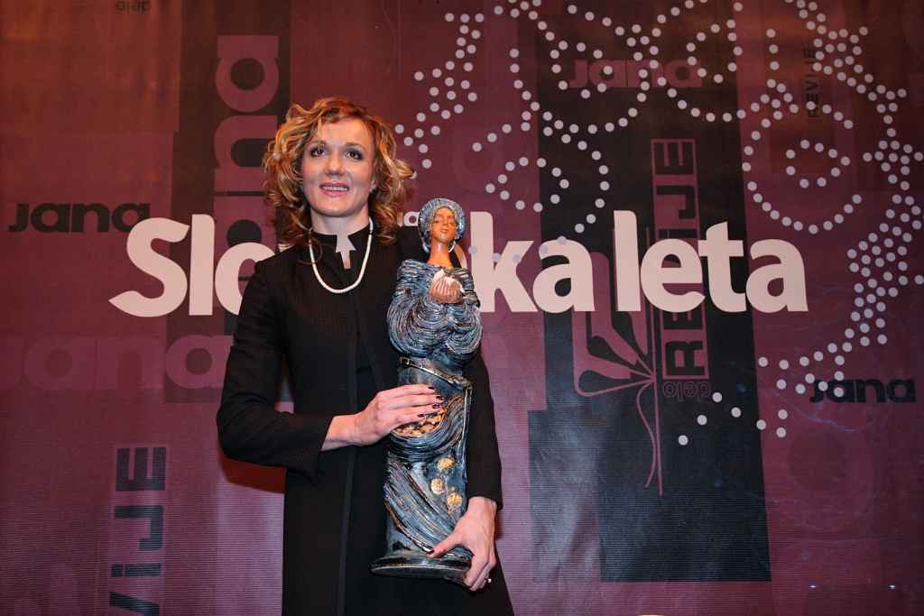 Petra Majdič winning Slovenka leta 2010 title